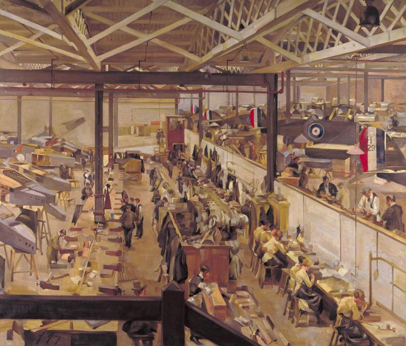 An Aircraft Assembly Shop, Hendon image: The interior view from an elevated position showing the shop-floor of an aircraft assembly factory. The aircraft are seen in various stages of assembly to the left and right of the image. In the centre are lines of workbenches and a range of different factory personnel.